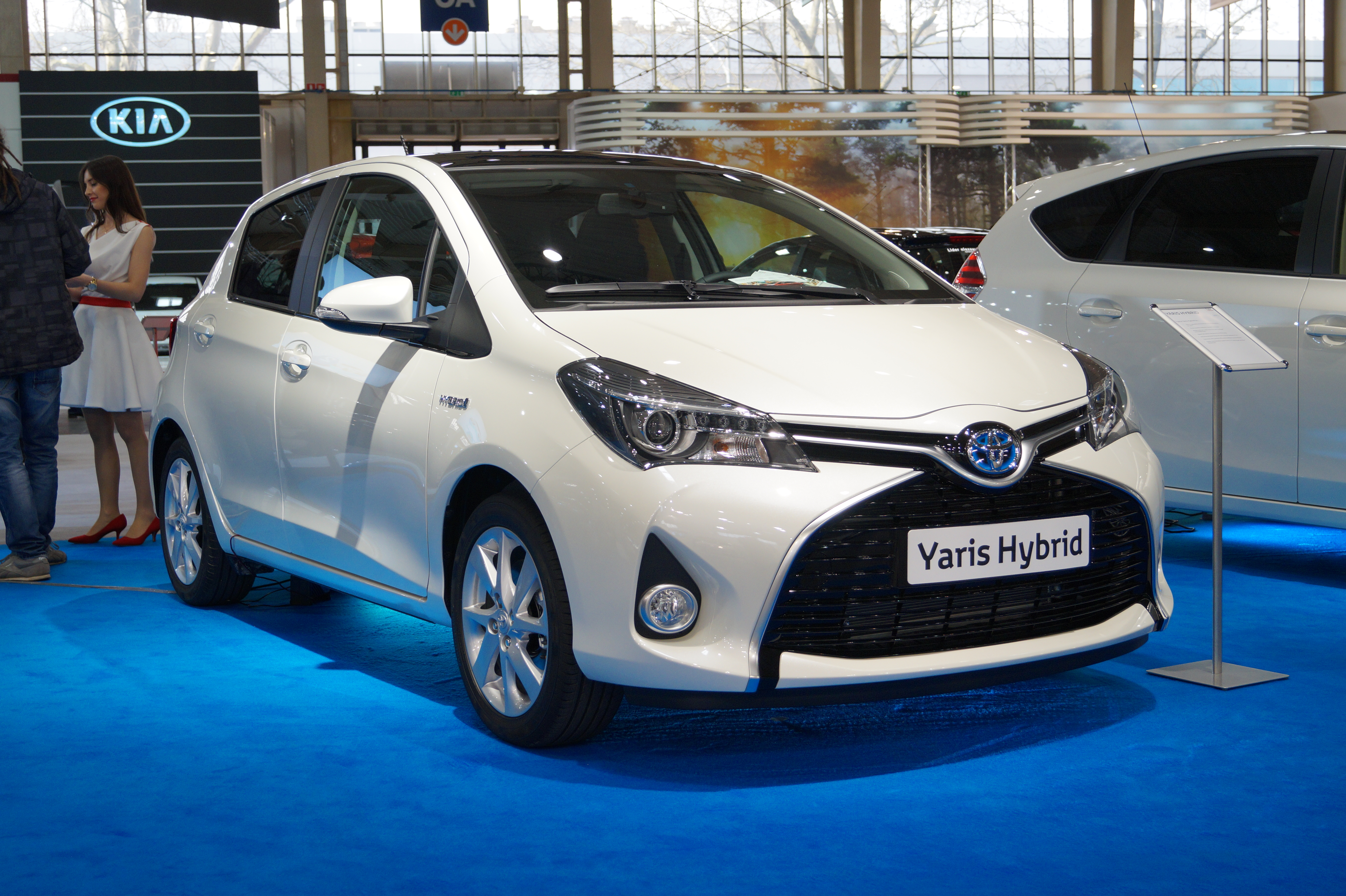 The making of this document was supported by Wikimedia Polska Association, within Wikigrant no. WG 2015-19. Przód Toyoty Yaris Hybrid na Motor Show Poznań 2015